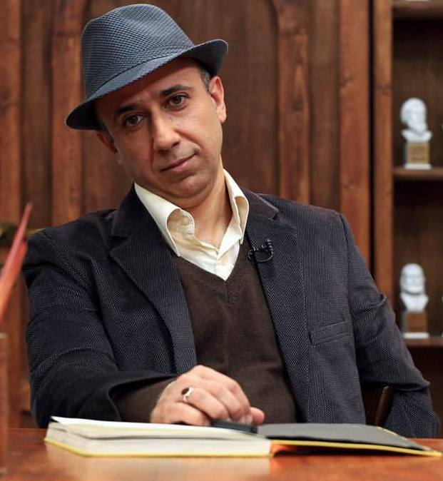 Ali Mirmirani